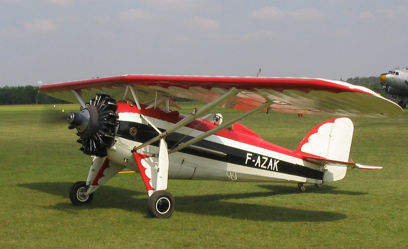 Morane-Saulnier MS.230 on display at La Ferté-Alais airshow in 2006